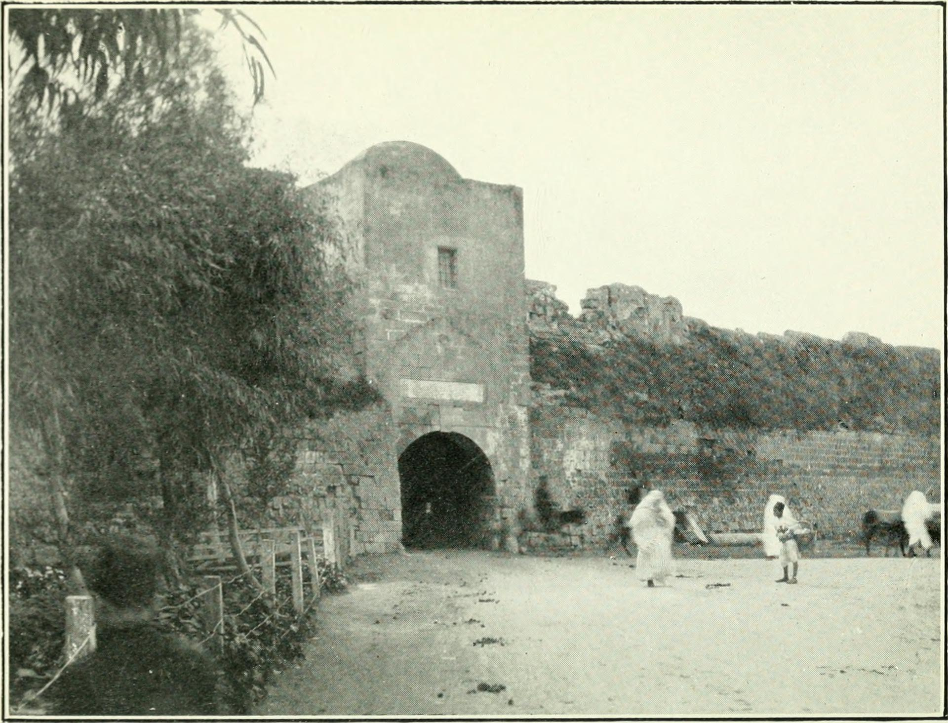 Title: My experiences of Cyprus; being an account of the people, mediæval cities and castles, antiquities and history of the island of Cyprus: to which is added a chapter on the present economic and political problems which affect the island as a dependency of the British empire Year: 1908 (1900s) Authors: Stewart, Basil, 1880- Subjects: Cyprus -- Description and travel Great Britain -- Colonies Cyprus Publisher: London : G. Routledge New York, E.P. Dutton Text Appearing Before Image: ' Text Appearing After Image: Kythraea and Nicosia. there was no steam or visible vapour of anykind, it did not extinguish a Hghted match, andone could breathe it with impunity. We couldnot find out either in Kythraea or Nicosia anyone who knew anything of this vent, so wemay have possibly been the first to discoverit, as it was quite out of the way of shepherds,and Pentedactylon has not yet seen its slopesworn by the feet of many climbers. A friend of mine who went up again to thisarrete some eighteen months later told methat, instead of a hot stream of air issuingout of the vent, a cold stream was descendinginto it. Another interesting fact is that at the footof Pentedactylon there rises a stream ofwarm water, and probably it owes its heat tothe same cause as this stream of hot air. The stream which so bountifully suppliesKythraea is said by the natives to comeunder the bed of the sea from the TaurusRange on the opposite coast of Asia Minor.This theory is, of course, ridiculous, but itsuits the character of the